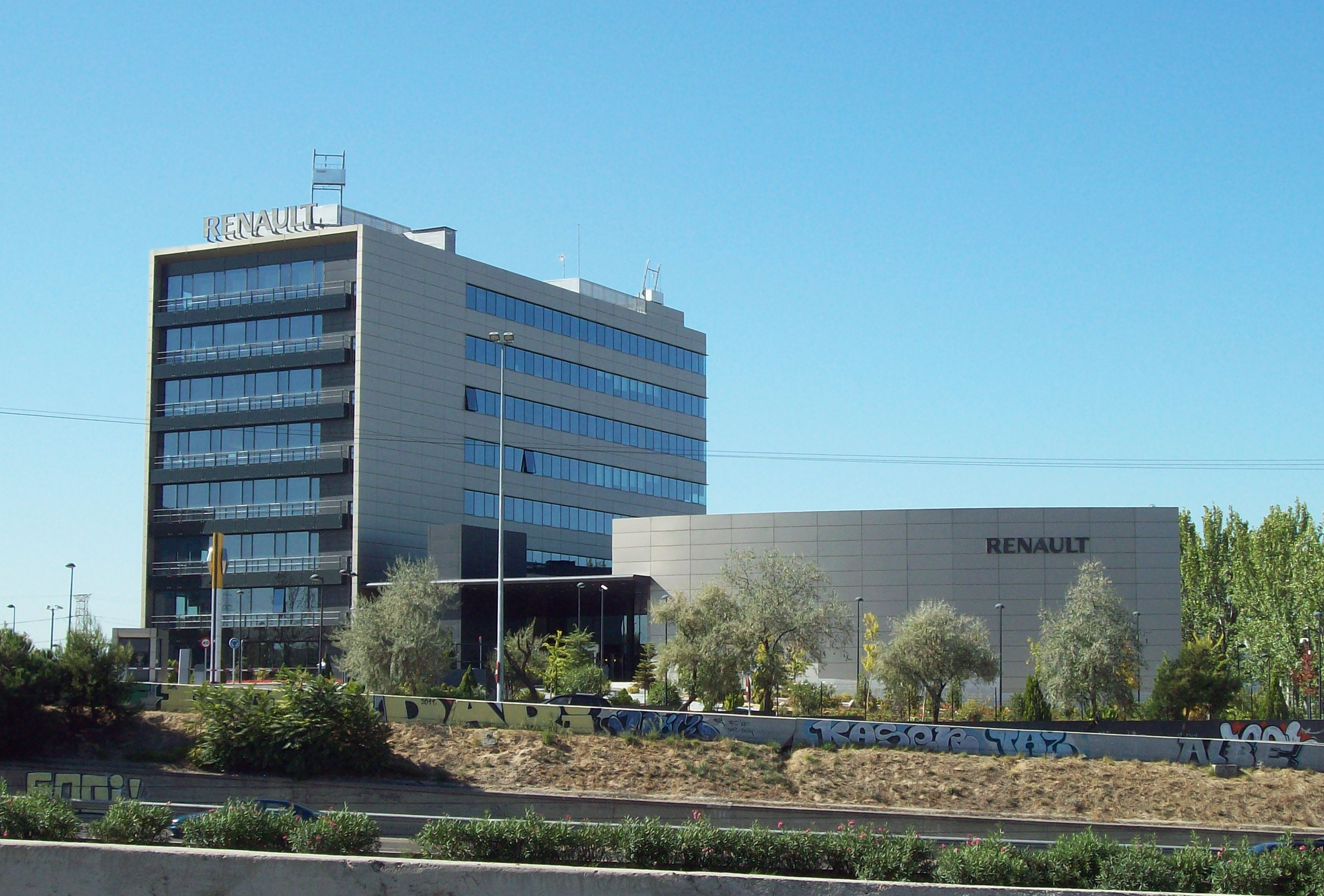 View of Renault offices in Madrid (Spain).